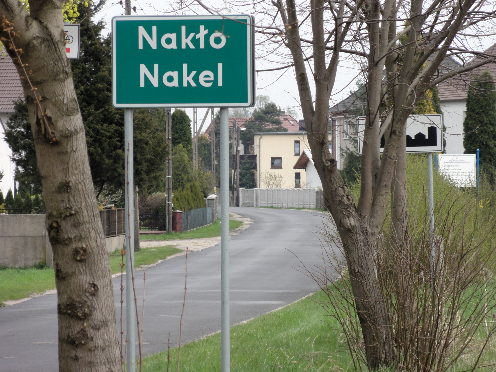 Poland, Naklo